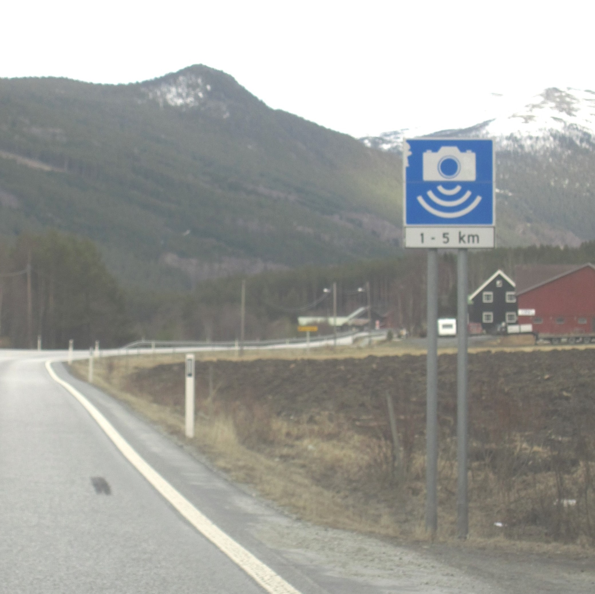 Road sign 556.1 supplemented by road sign 804 warning traffic enforcement camera measuring average speed the next 1 - 5 km, at E6 Dovreskogen, Norway. Average speed measuring now has a separate sign (road sign 556.2) and the use of sign 556.1 with a supplementary sign to indicate average speed measuring is obsolete.